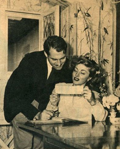 Actor Alan Marshal and his wife Mary in their home, 1940s